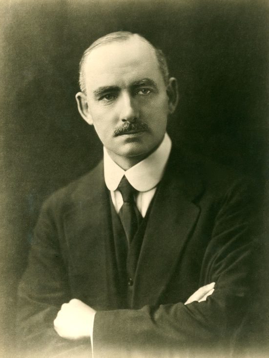 A black-and-white photographic portrait of William George Goodman. State Library of South Australia (SLSA B5458)